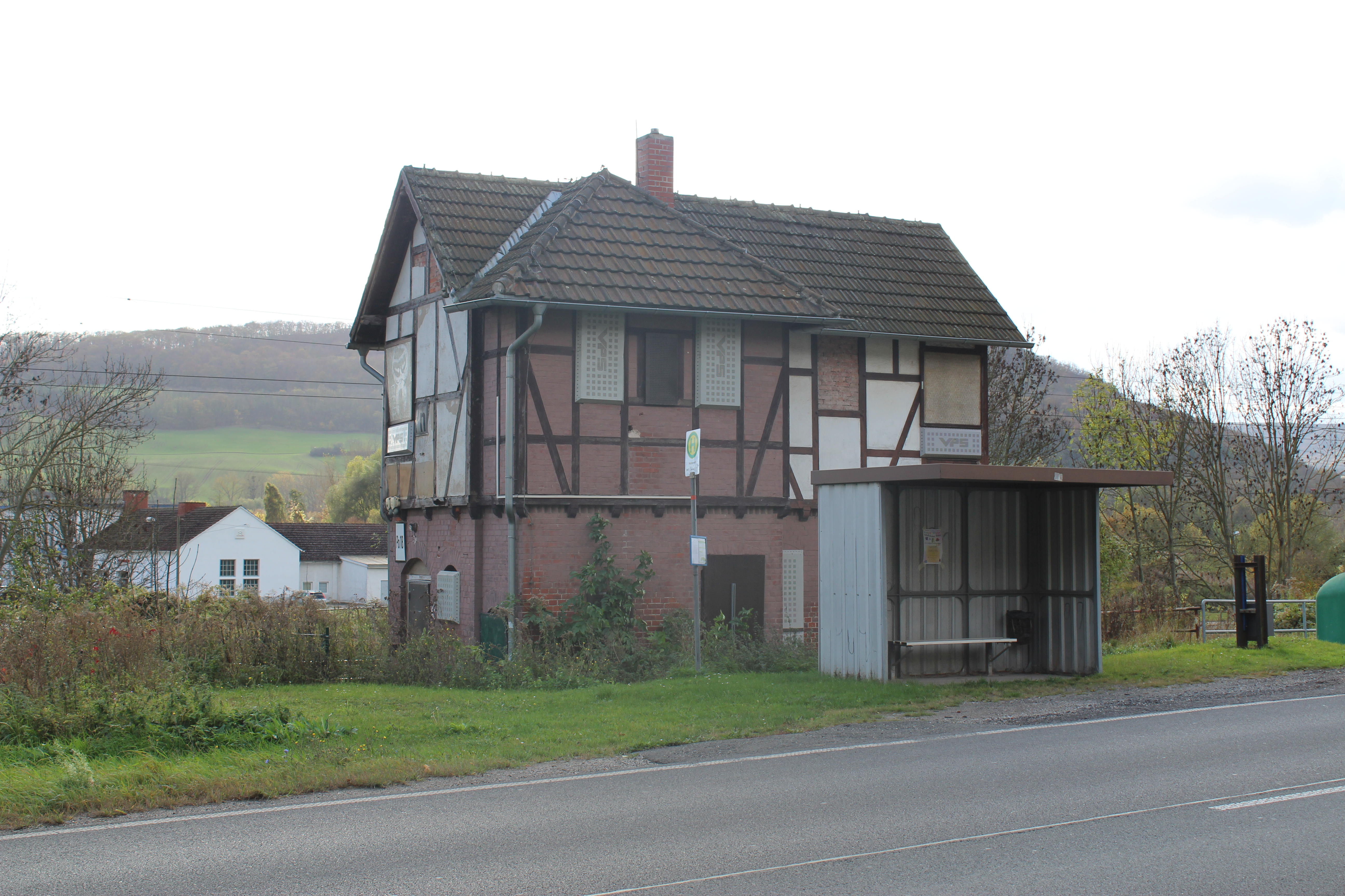 train station Porstendorf, signal box